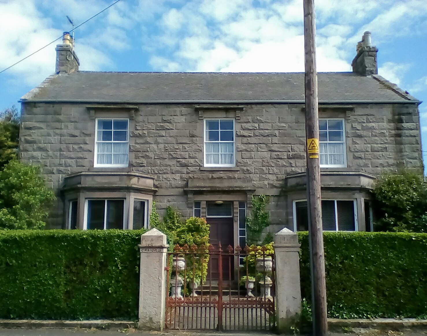 House in Kirkcudbright, family home of Lawrence of Arabia.